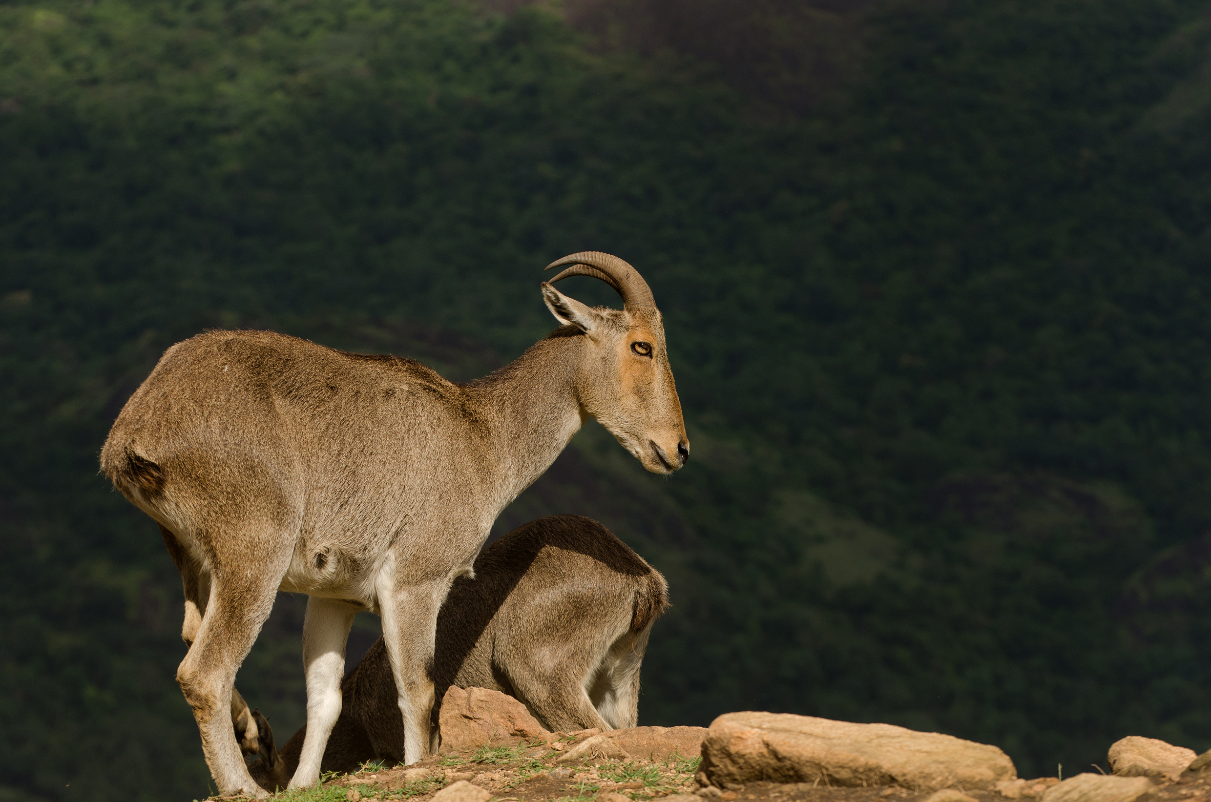 Nilgiritragus hylocrius